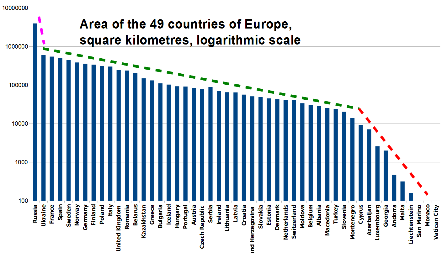 A graph with logarithmic scale, showing the size (European part only) in square kilometres of 49 European countries, according to List of European countries by area. A dashed envelope line in three colours shows three categories: Purple = the enormous Russia, Green = normal countries, Red = tiny countries.